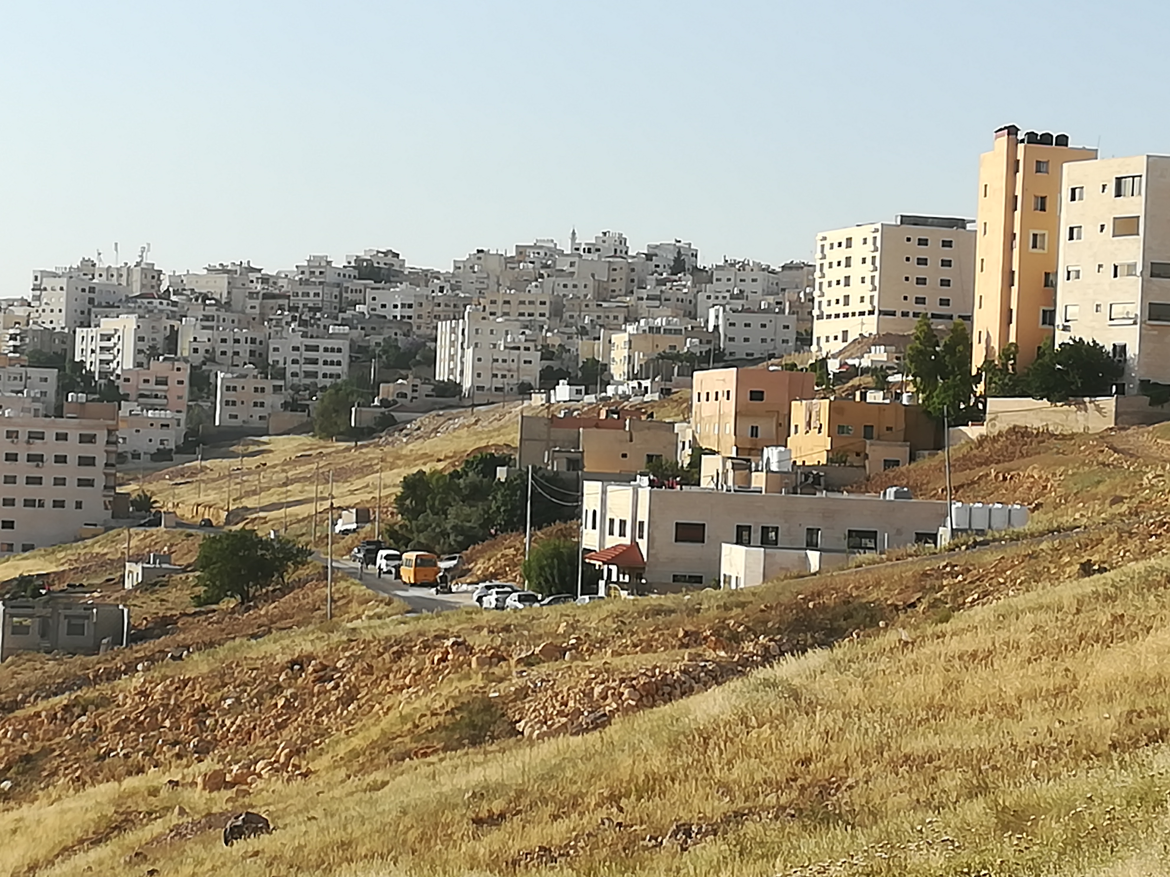 Bayader Wadi Al-Seer, Amman, Jordan